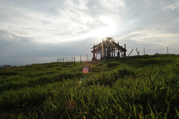 University Agriculture Park